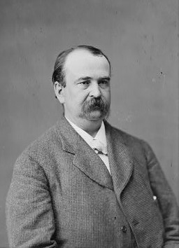 Frank Hunt Hurd (1840 - 1896), a U.S. Representative from Ohio